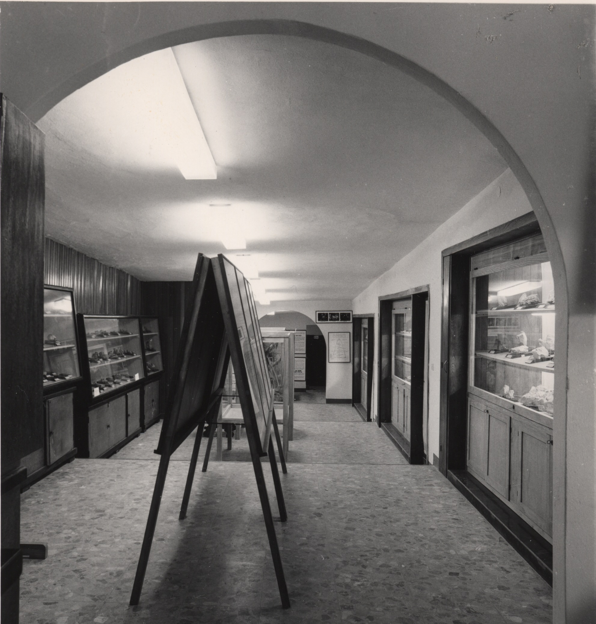 Museo delle Grigne design 1959. Archivio Pietro Pensa, Esino Lario.